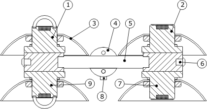 Cross section of 4 component net-radiometer type NR01 by Hukseflux Thermal Sensors (Free of copyright): (1) SWin solar radiation sensor or pyranometer, (2) LWin far infrared radiation sensor or pyrgeometer, (3) radiation shield, (4) leveling assembly for x and y axis, block plus bolts for x-axis adjustment (5) leveling assembly for x and y axis, horizontal rod, (6) connection body, containing Pt100 temperature sensor, heater and hole for users own temperature sensor (add cable gland M8), (7) LWout far infrared radiation sensor or pyrgeometer, (8) leveling assembly for x and y axis, bolts for y-axis adjustment, (9) SWout solar radiation sensor or pyranometer.